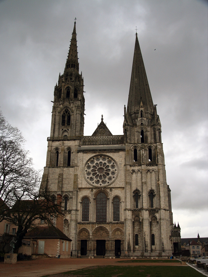 Cathedral at Chartres, France.